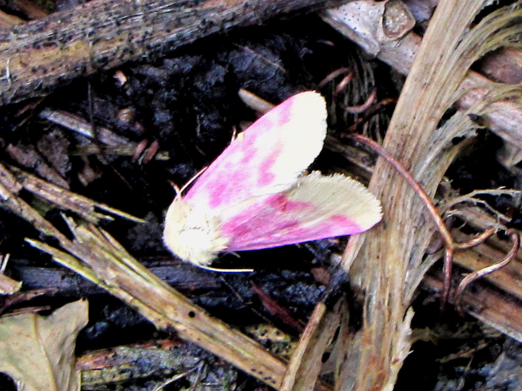 Primrose Moth (Schinia florida) of ground, Mer Bleue Conservation Area, Ottawa, Ontario